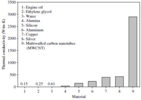 Thermal conductivity of different materials